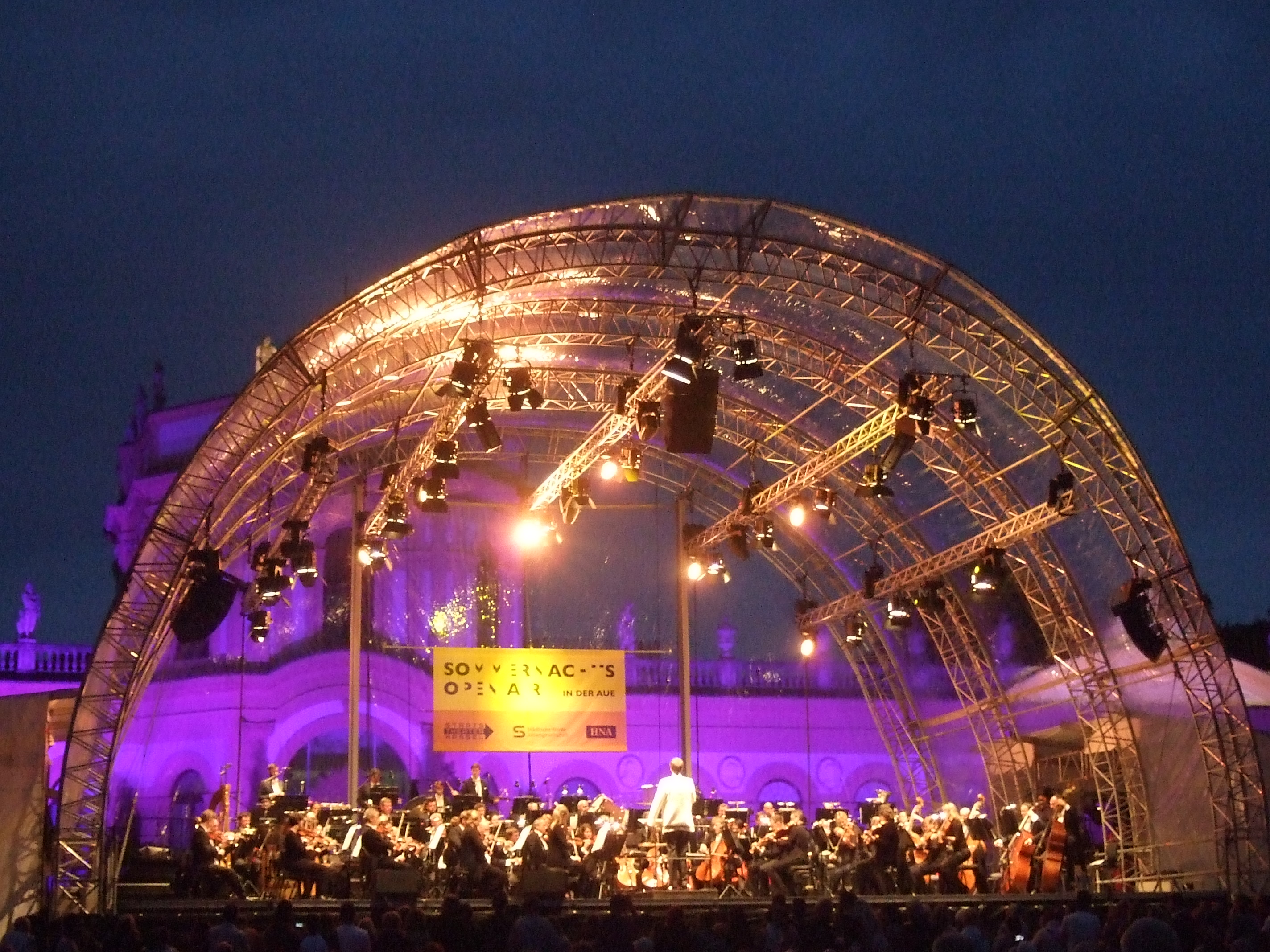 HNA Sommer Open Air 2016